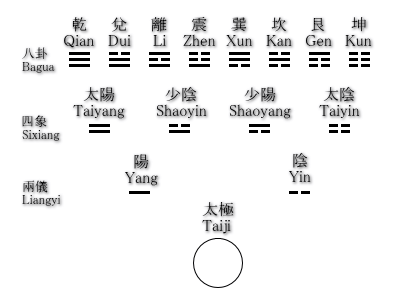 Derivation of the Early heaven 8 trigrams(Fuxi Xiantian bagua).